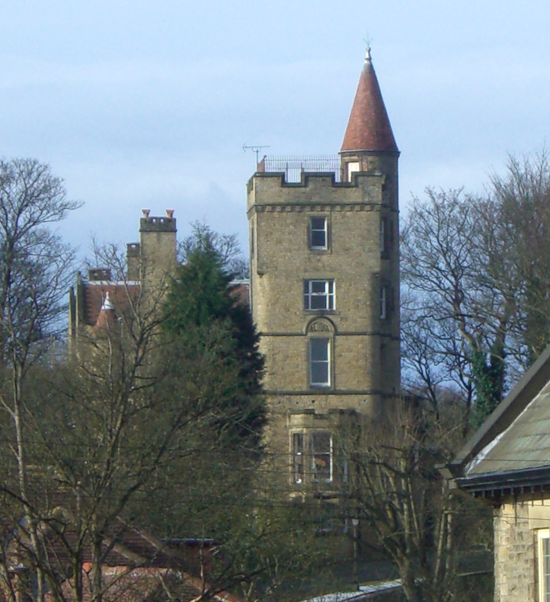 The Towers, a small country house in the Sandygate area of Crosspool in Sheffield, England.